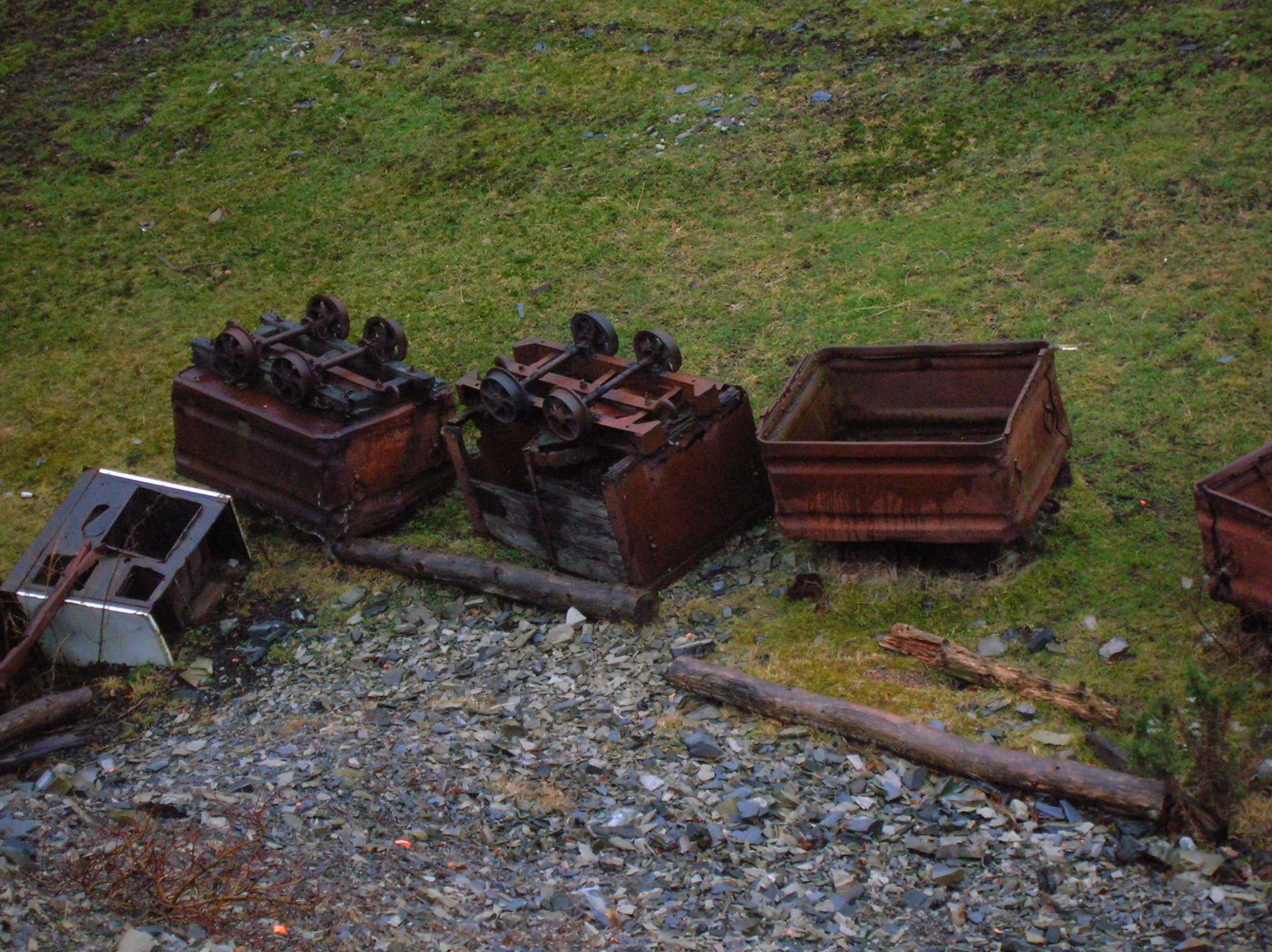 Old narrow gauge railway waggons from the hone works at Laigh Dalmore quarry, Stair, East Ayrshire, Scotland